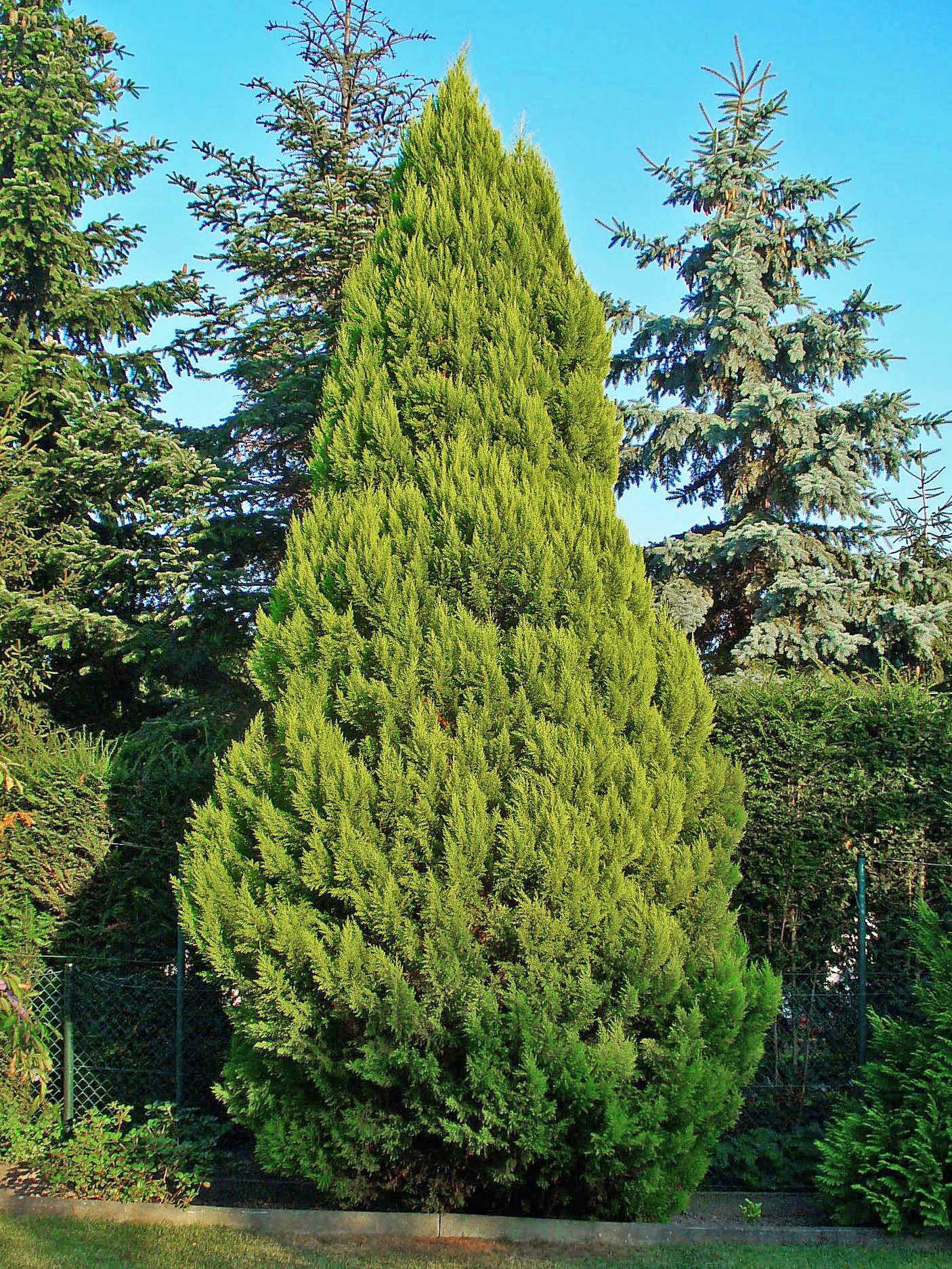 Chamaecyparis lawsoniana, Cupressaceae, Lawson's Cypress, Port Orford-cedar, habitus; Karlsruhe, Germany. The cones and leaves are used in homeopathy as remedy: Cupressus lawsoniana (Cupre-l.)